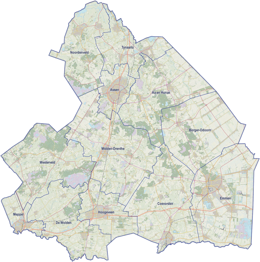 Outline overview map of the province, with municipal borders (2016) and an impression of the terrain.